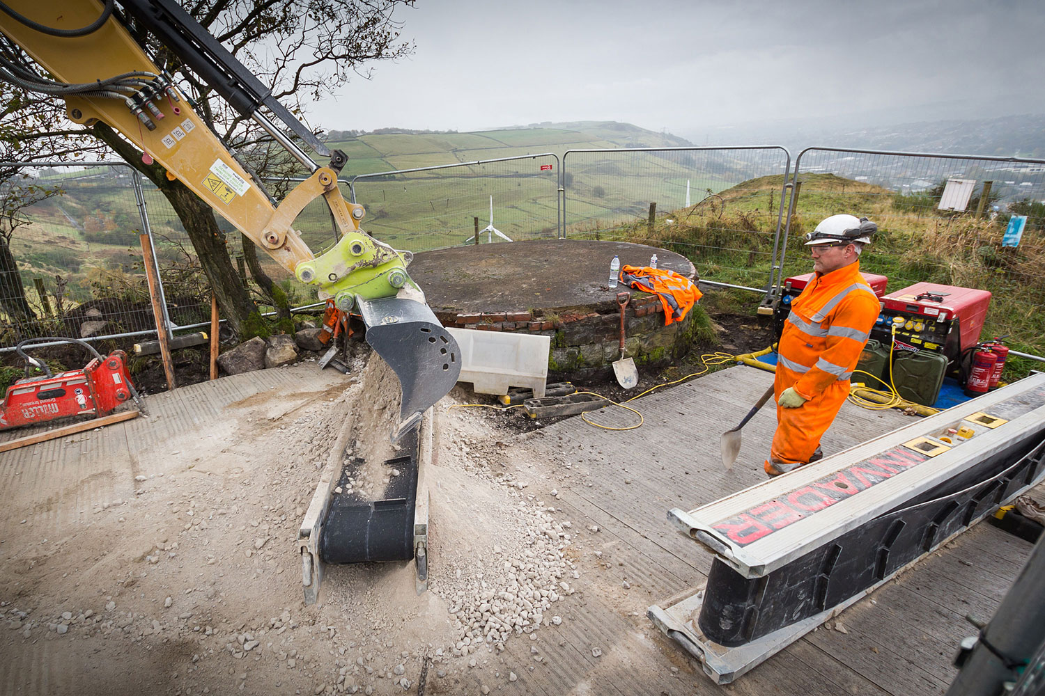 The infilling of No.2 Shaft at Queensbury Tunnel in October 2019.